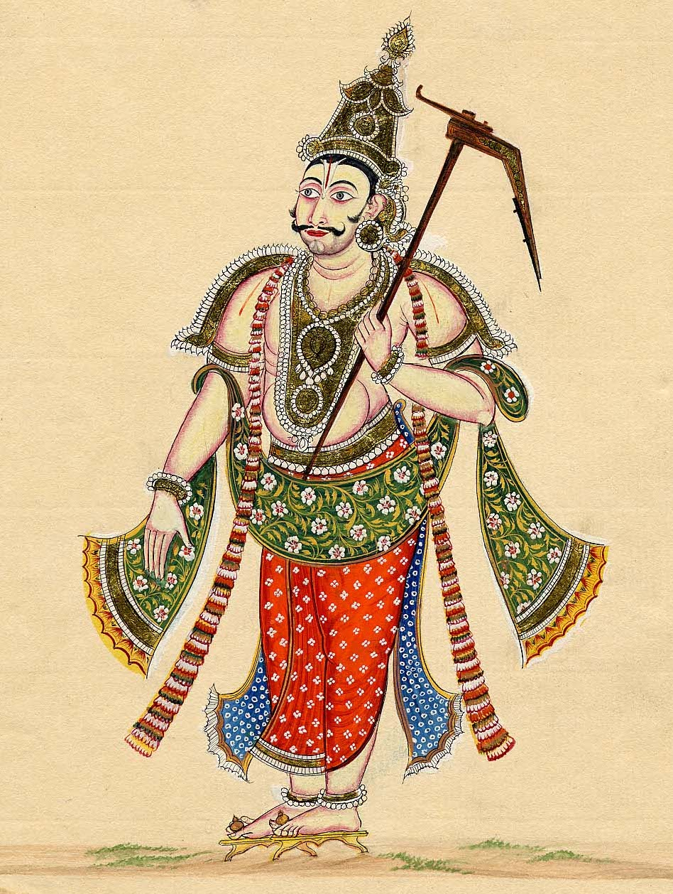 "Balarama. He is depicted crowned, two-armed and carrying a plough over his left shoulder. An impression of perspective is provided by a lightly sketched-in foreground. On laid European paper watermarked with a fleur de lys."